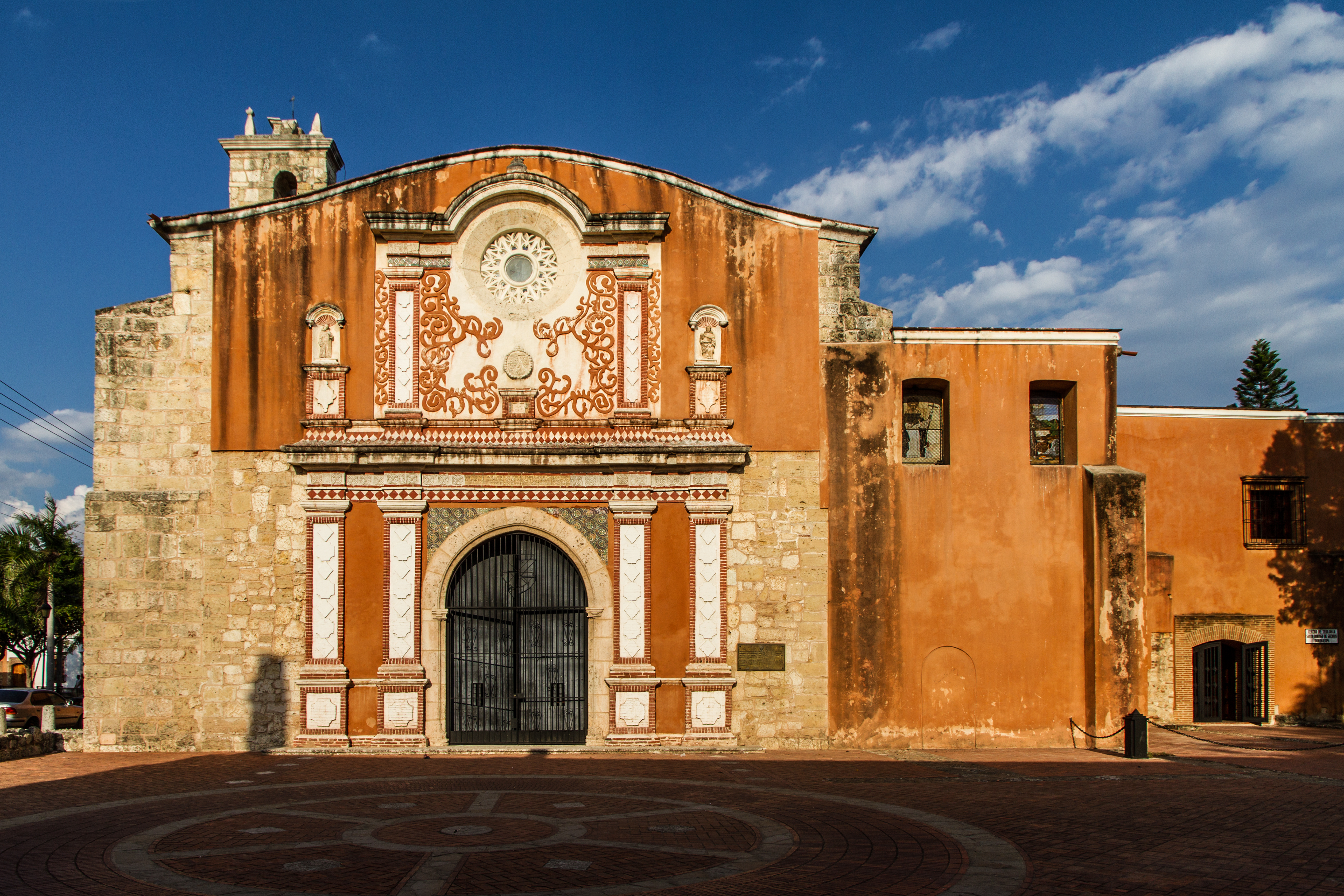 Convento De Los Dominicos, Santo Domingo, Dominican Republic